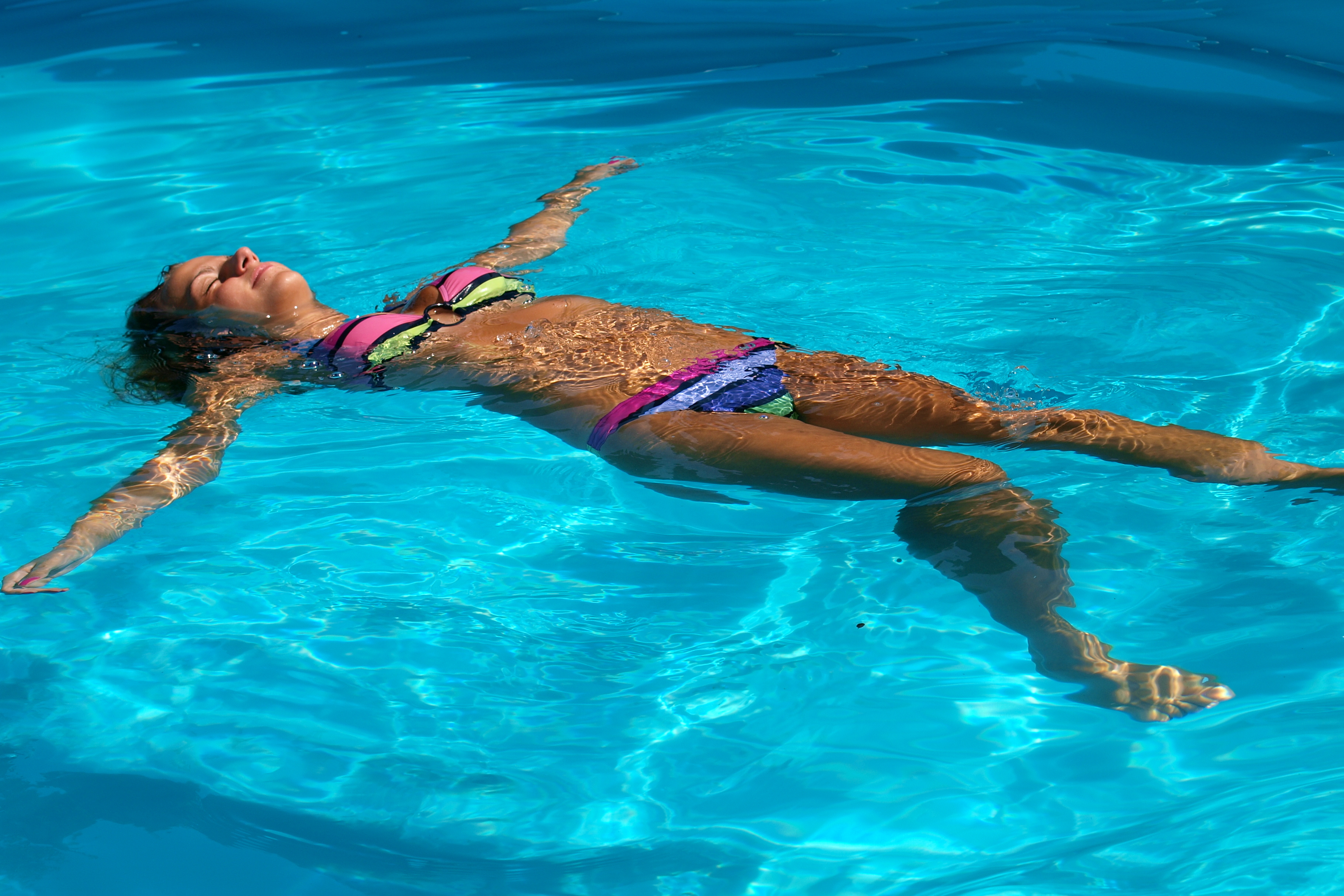 Woman enjoys the hotel swimming pool.